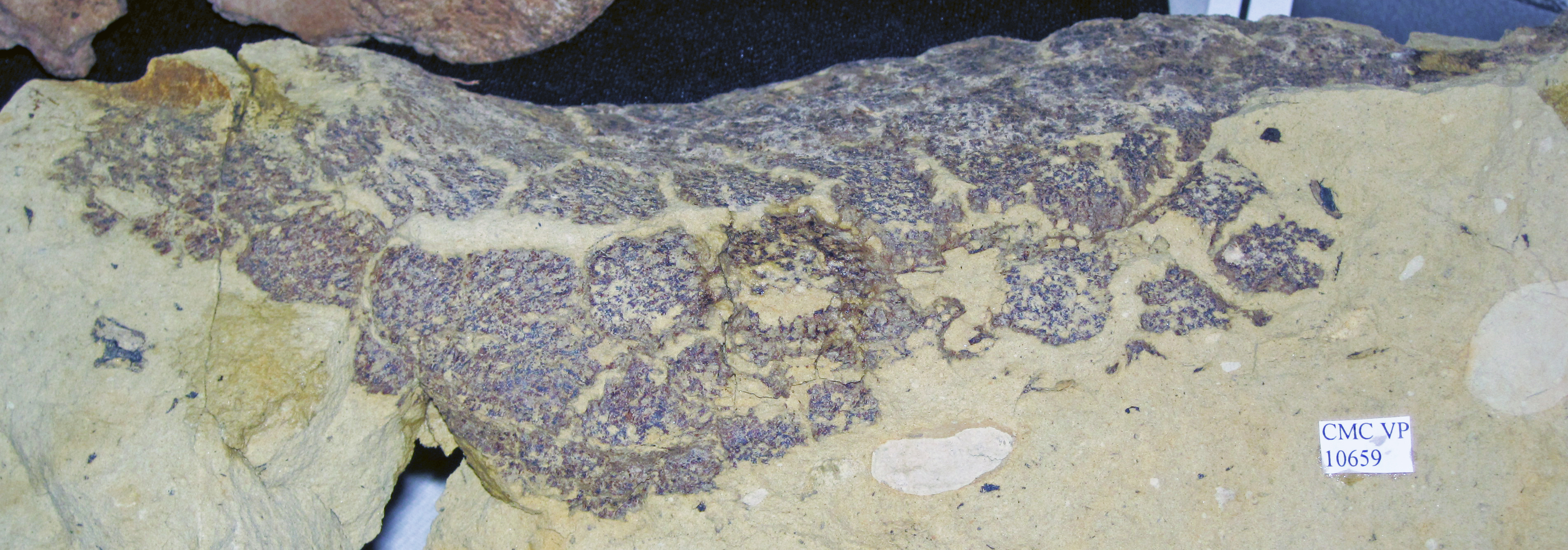 Diplodocus sp. fossil sauropod dinosaur skin from the Jurassic of Montana, USA. (CMC VP 10659, Cincinnati Museum of Natural History and Science, Cincinnati Museum Center, Cincinnati, Ohio, USA) Sauropod dinosaurs were the largest terrestrial animals ever. They all have the same basic body plan: large body with four walking legs, very long neck & tail, and a small head relative to body size. Sauropods were herbivores, and are often perceived as holding their heads & necks up high to reach vegetation normally out of reach to other organisms. Modern reconstructions of many sauropod species depict them with heads and necks held close to the horizontal, or at low angles above the horizontal. Museum info.: "We know very little about the skin texture of dinosaurs and almost nothing about their color. Luckily, we have found several well-preserved impressions of the skin of this dinosaur. This individual probably became desiccated after death during a drought and, when the rains reappeared, the body was pressed against the mud, preserving the skin impression." Classification: Animalia, Chordata, Vertebrata, Dinosauria, Sauropodomorpha, Diplodocidae Stratigraphy: Morrison Formation, Upper Jurassic Locality: Mother's Day Site, Carbon County, southern Montana, USA